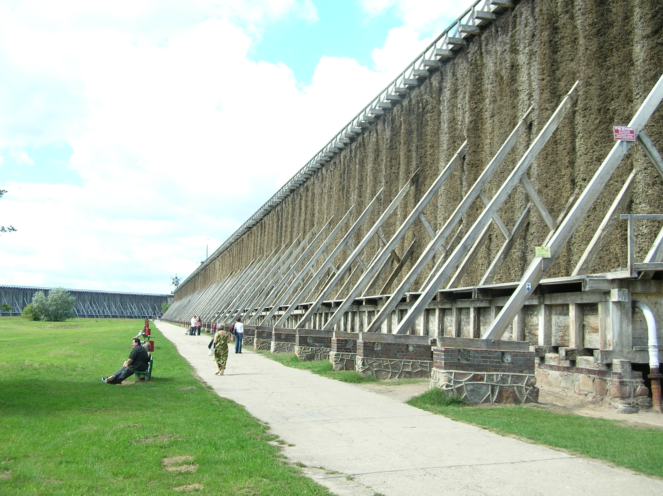 Saline graduation tower in Ciechocinek